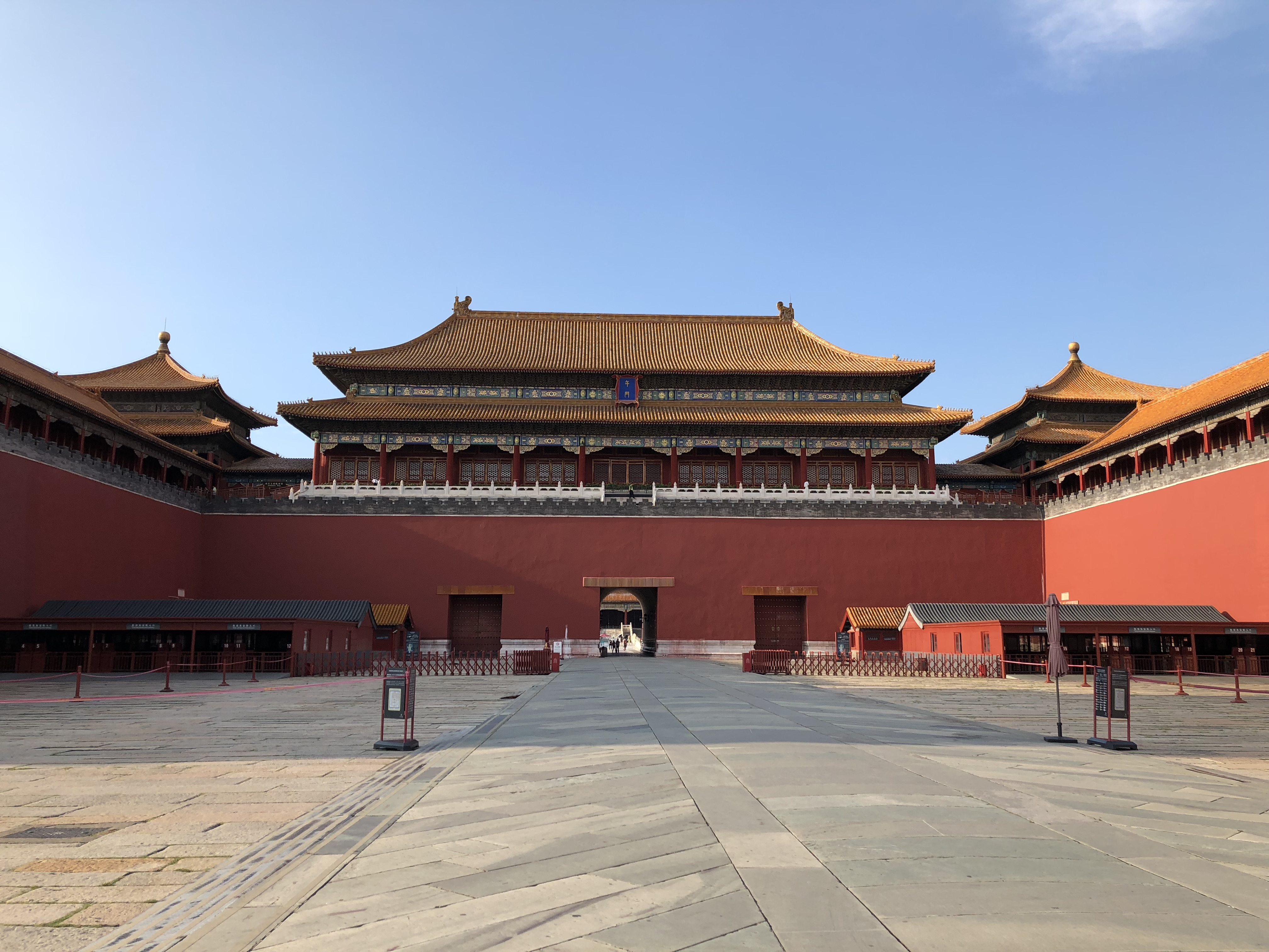 Meridian Gate (Forbidden City)